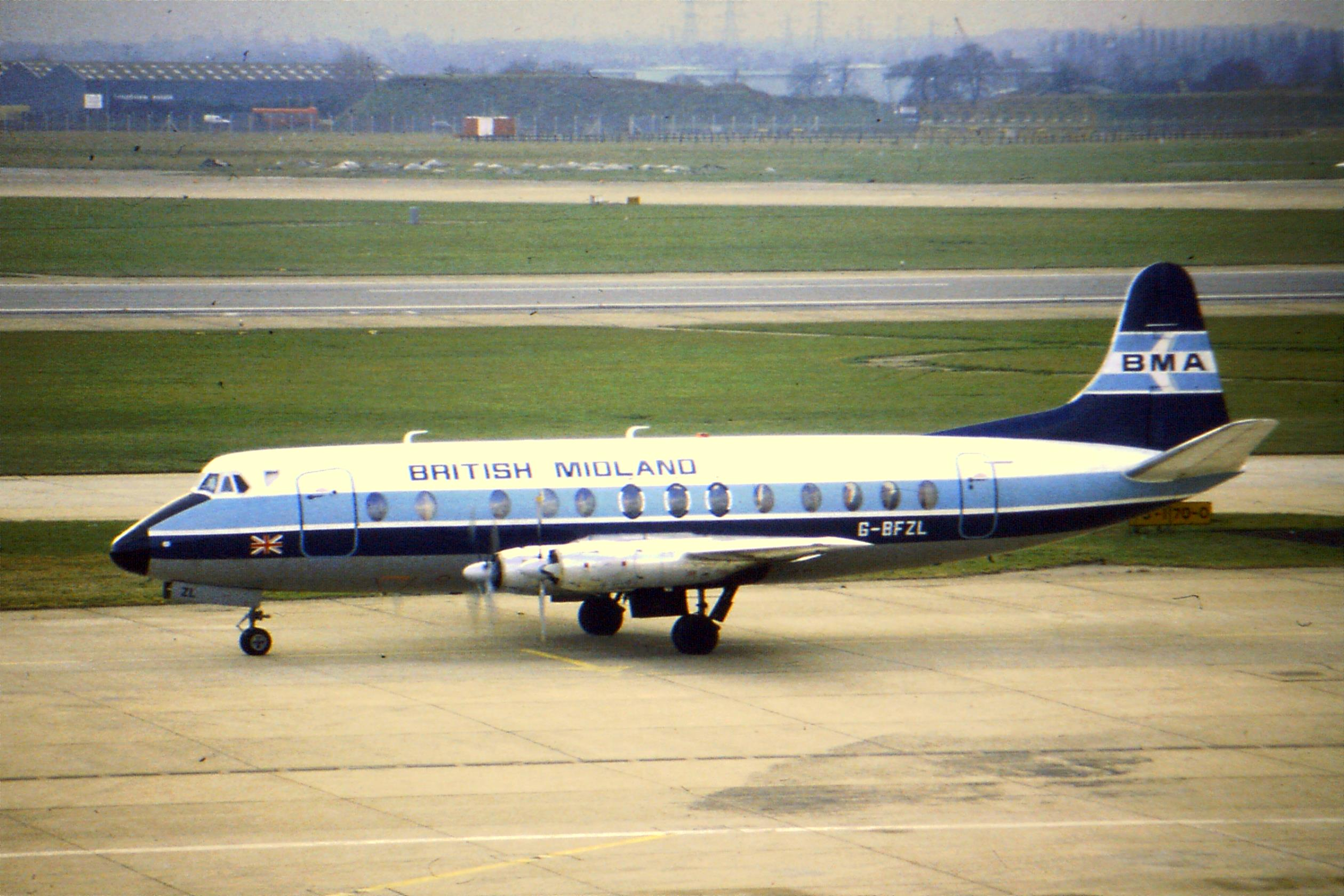 Could have been heading to MME/LPL or LBA.